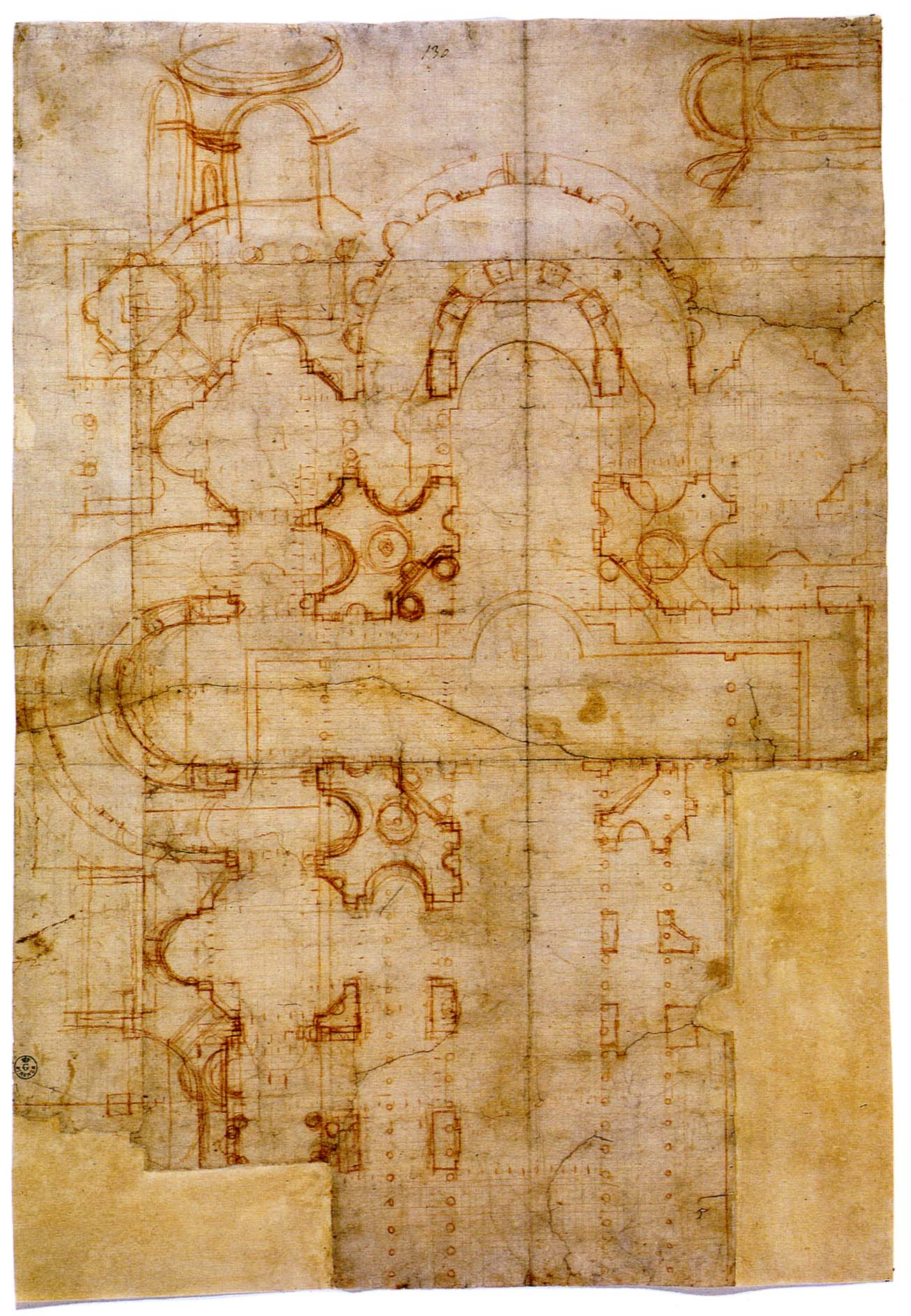 Sheet with a groundplan and two cross sections by Bramante for St. Peter's Basilica in Rome. The groundplan is superimposed over a plan of the ancient basilica, identifiable by its short chancel and rows of columns.